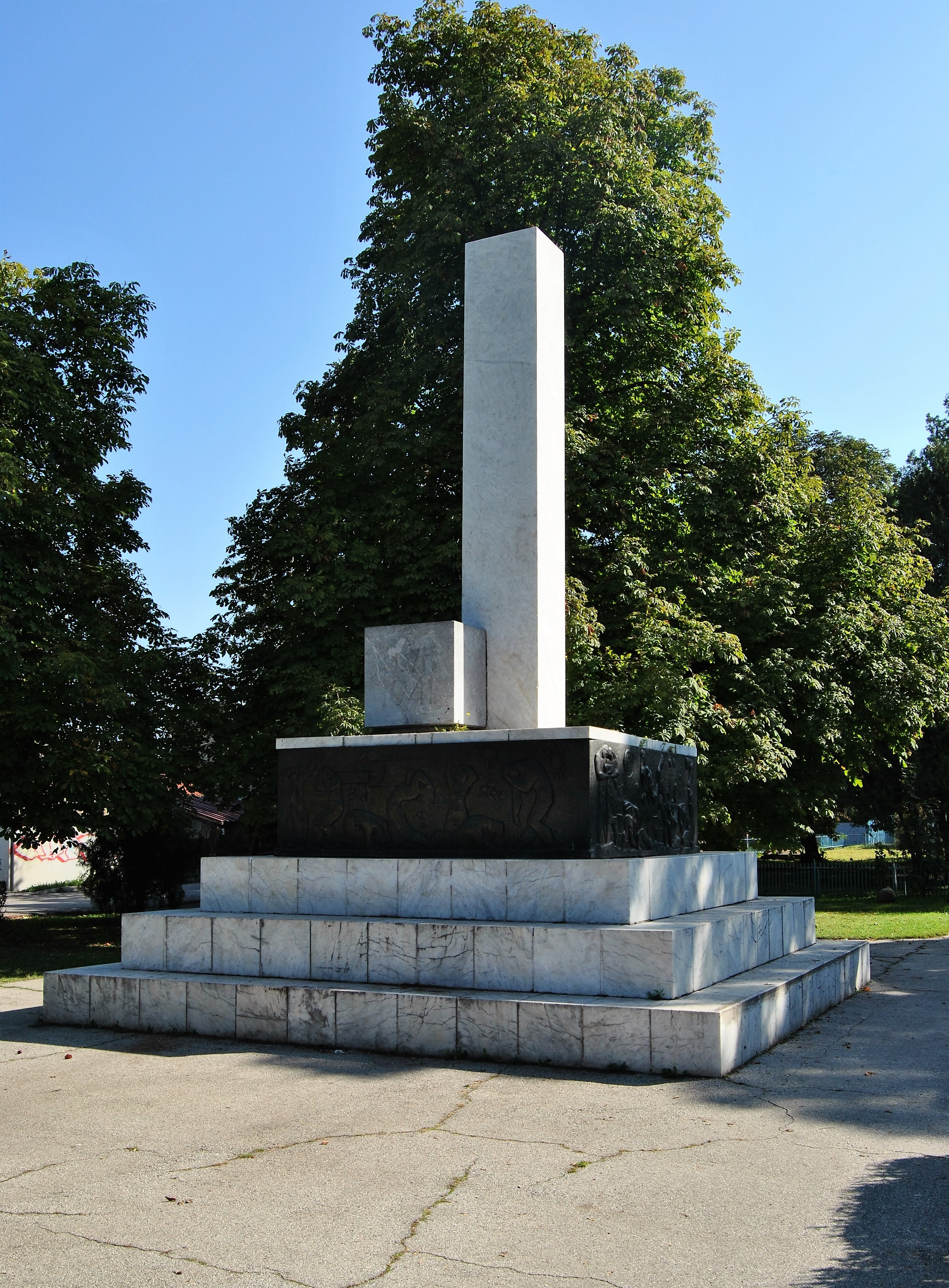 A monument to the victims of the explosion of ammunition in the Smederevo Fortress on the 5th of June 1941 in the park in front of the Museum in Smederevo, the work of Selimir Jovanović